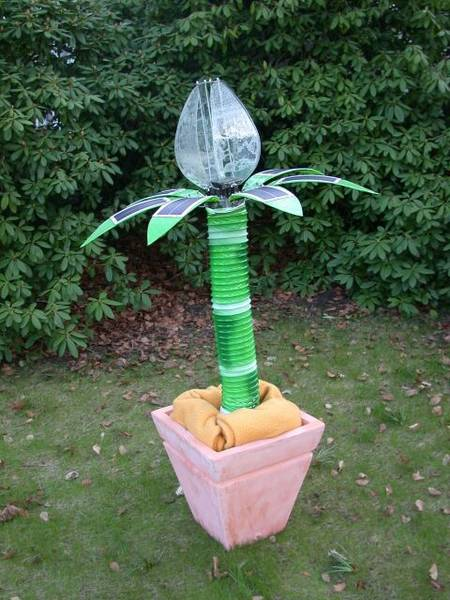 The Picture shows the I2CBaMBUS a robot with the behavior of a plant.